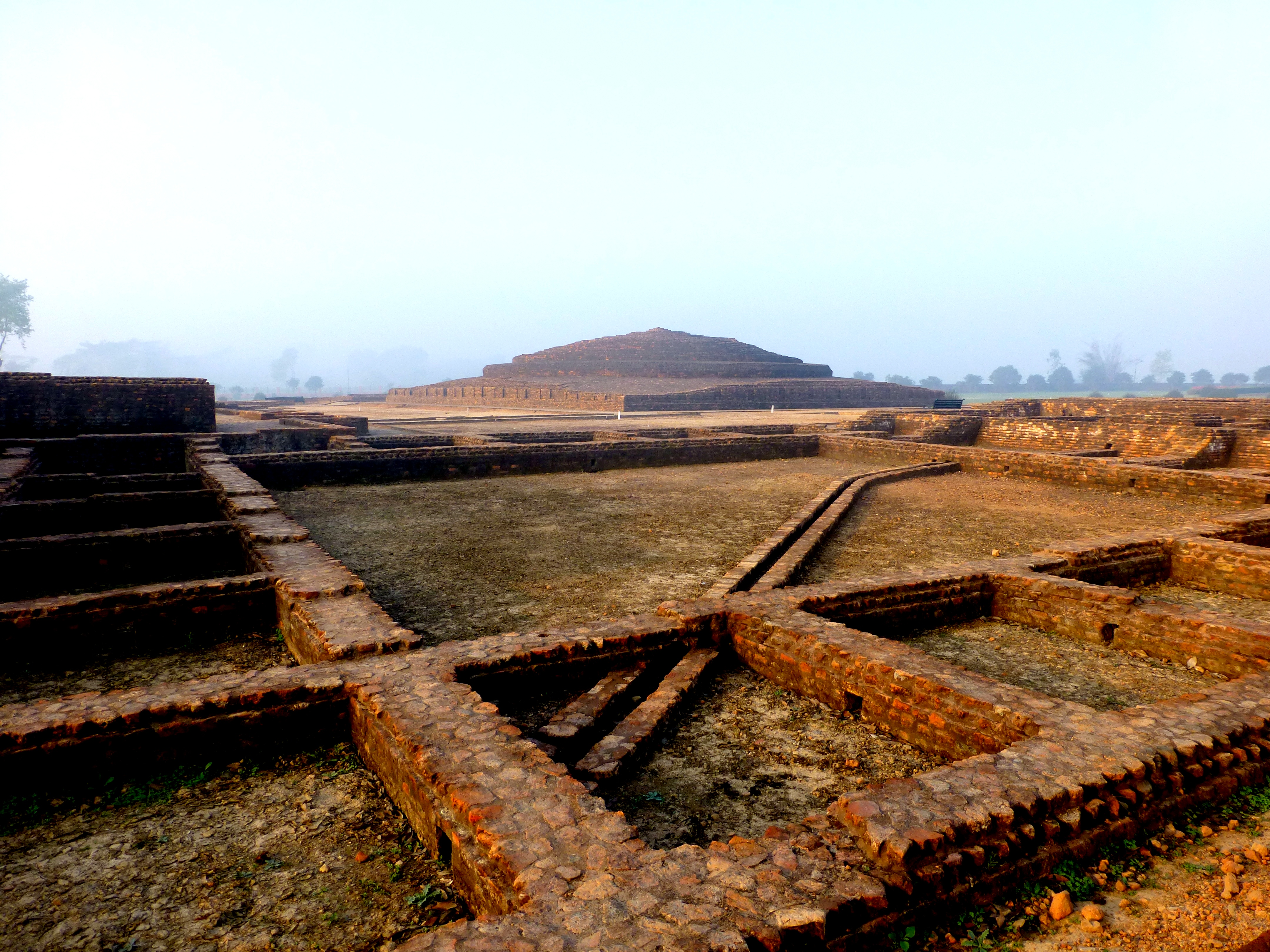 022 Excavations, Kapilavastu There are two sites which are acclaimed as the ancient city, the one photographed here, with its stūpa and monastic buildings, is in India (Piprahwa), and the other is in Nepal.